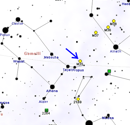 Orion Belt map